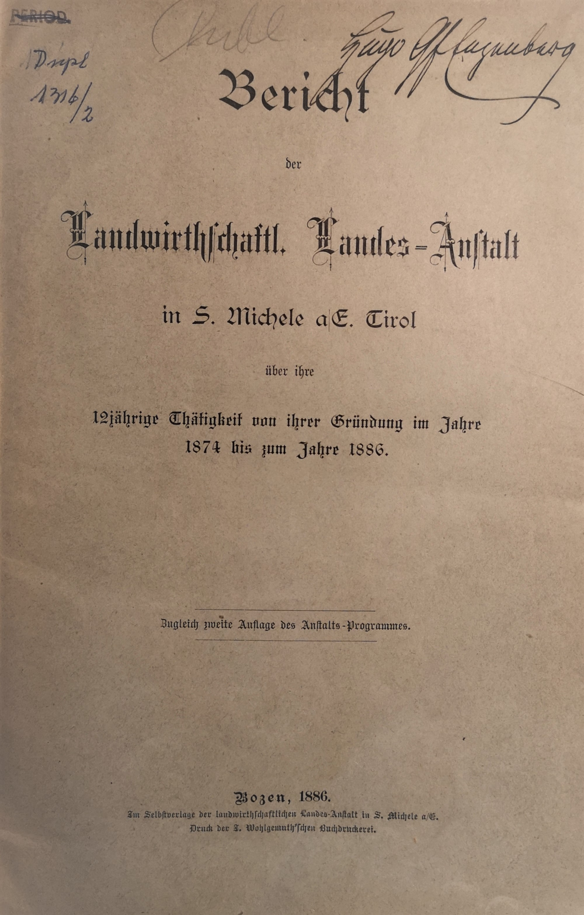 Cover of the San Michele Bericht from 1886, printed by J. Wohlgemuth-Bozen